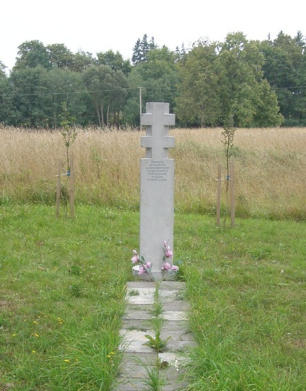 Gėsalai monument, Skuodas district, LithuaniaLietuvių: Gėsalų paminklas partizanams, Skuodo rajonas, Lietuva